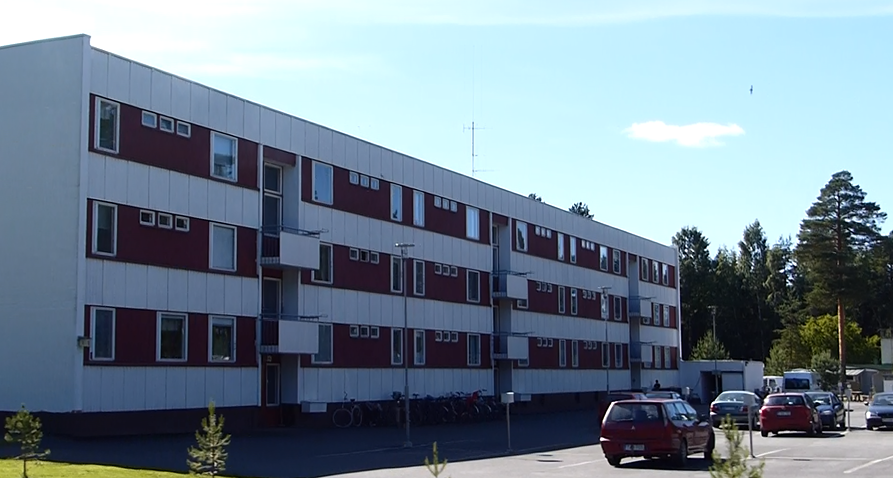 An apartment building in Nurmo